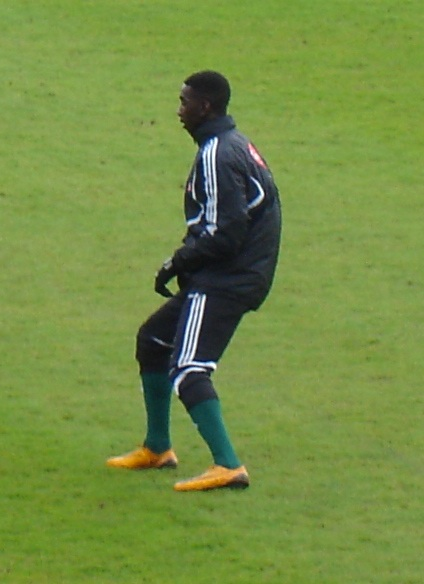 Yannick Bolasie warming up.